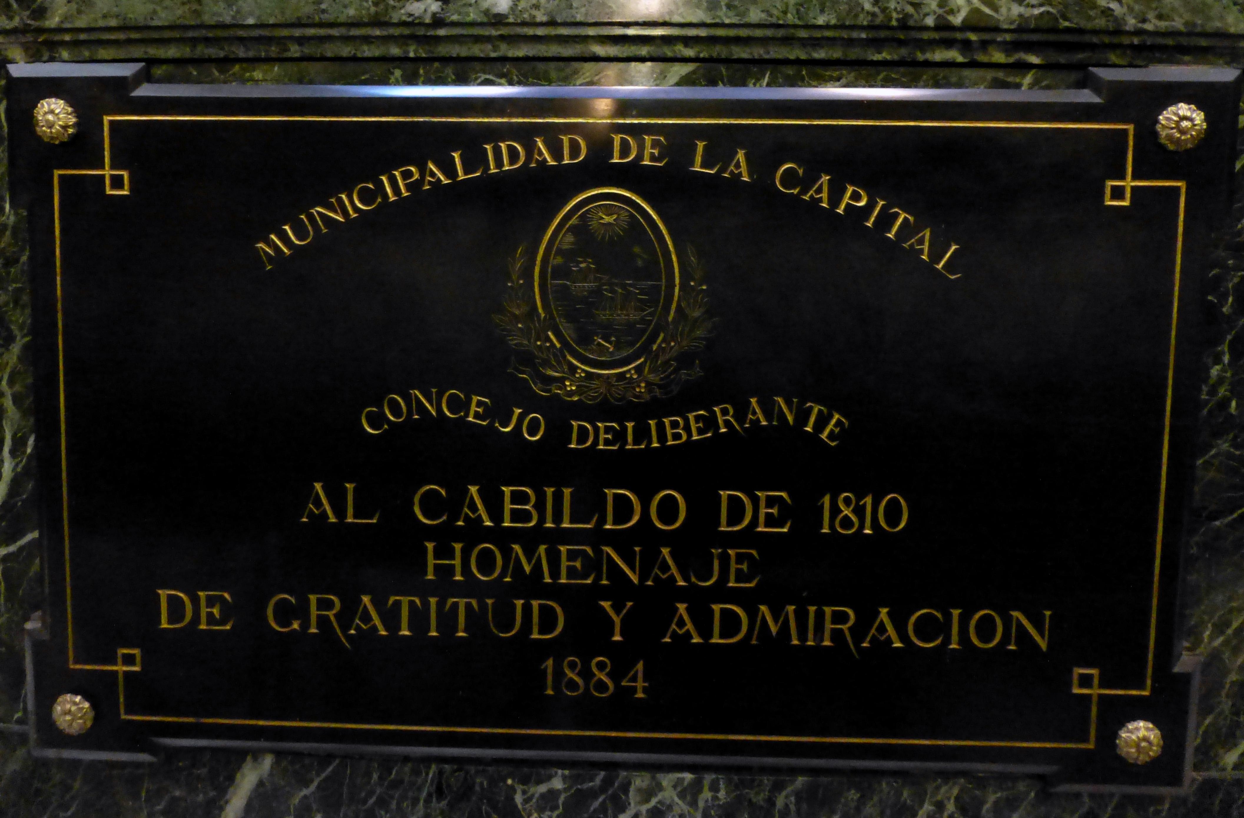 Placa que hace referencia al antiguo Concejo Deliberante de la Municipalidad de la Ciudad de Buenos Aires, ubicada en el Palacio de la Legislatura de la Ciudad de Buenos Aires.